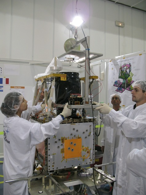 SSOT satellite from Chile.